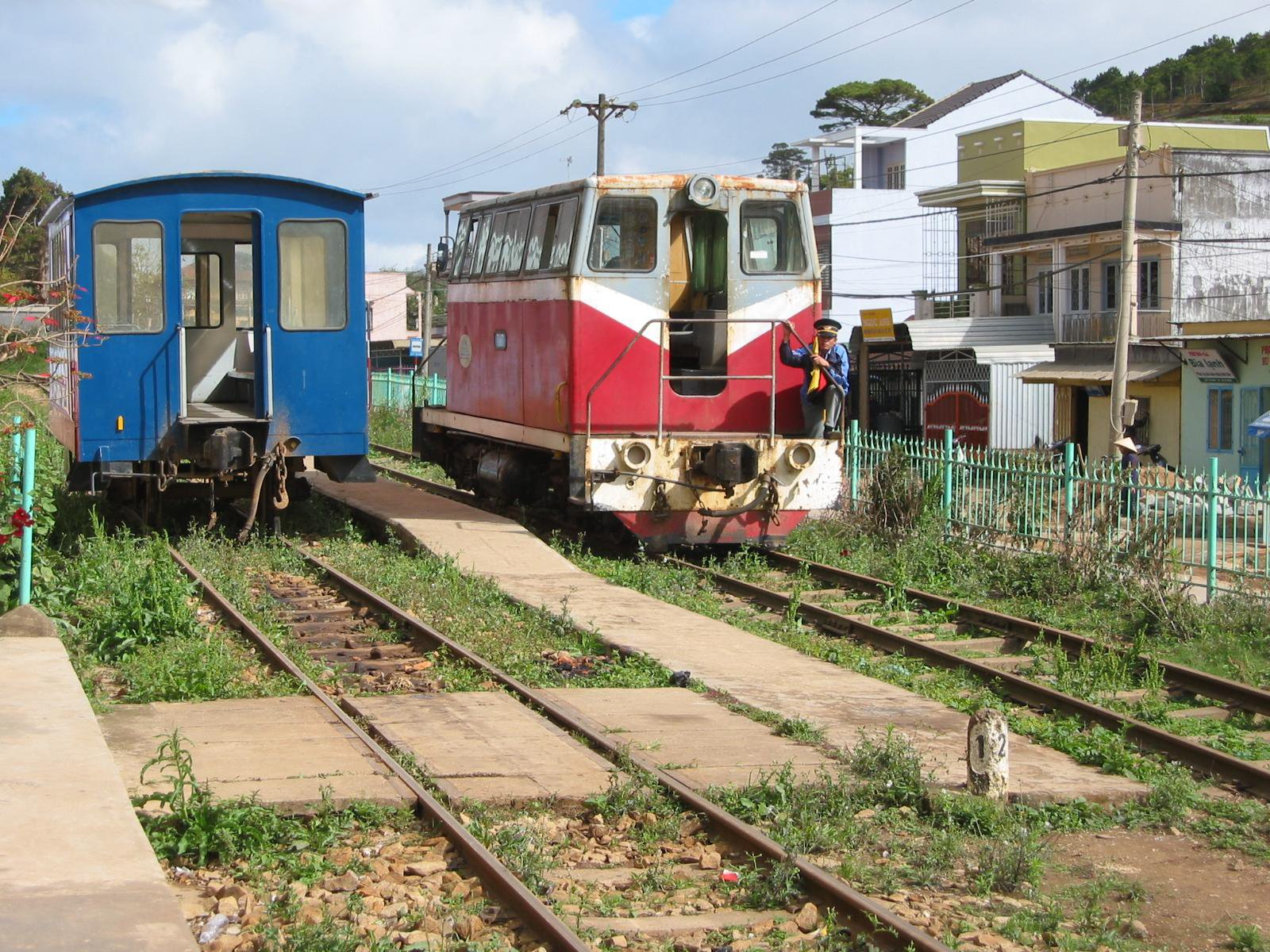 Locomotive TU8P being shunted to other end of one-coach train at Trại Mát on the Đà Lạt-Trại Mát railway.